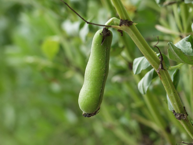 A picture of broad bean (Vicia faba) fruit.